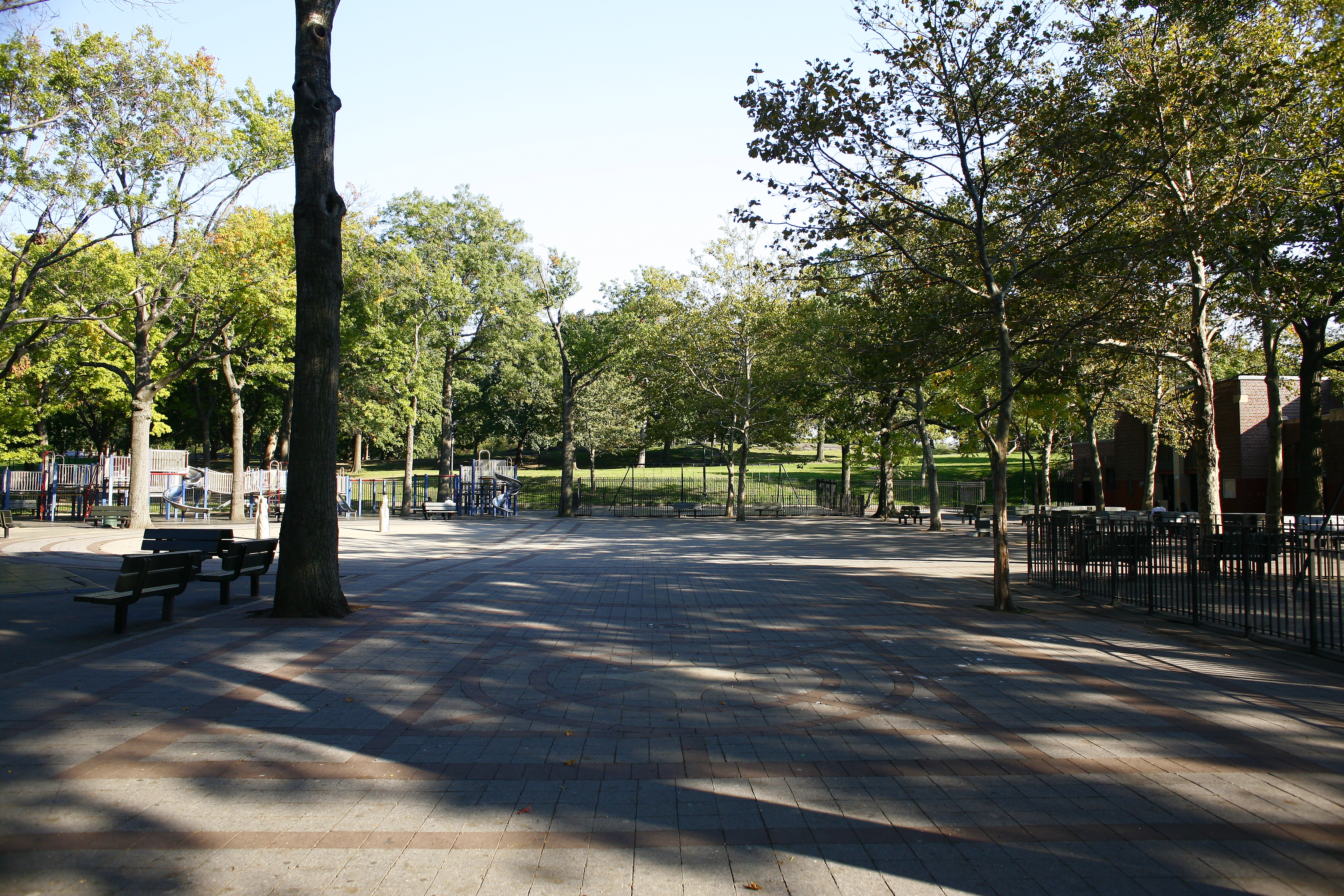 This photo is of Wikis Take Manhattan goal code N4, Crotona Park.